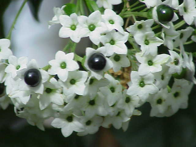 Species: Clerodendron formicarum Family: Verbenaceae Image No. 1